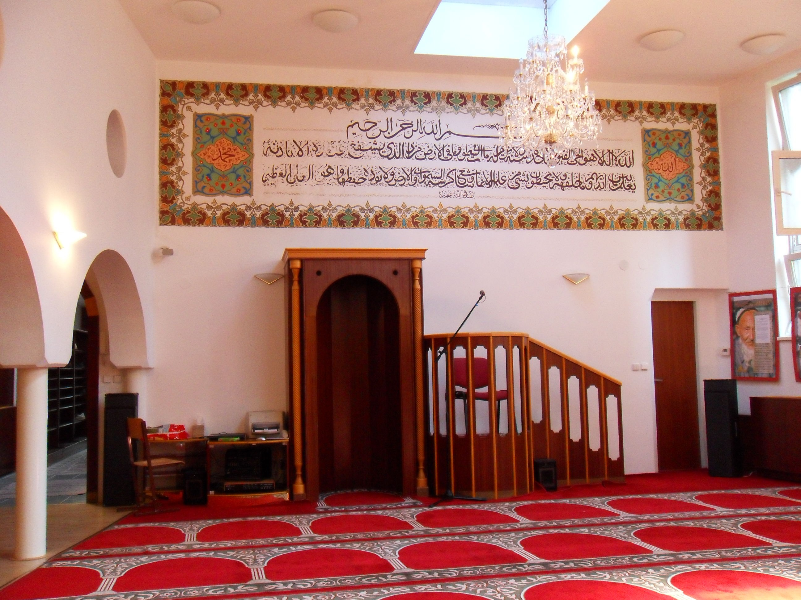 Mosque, Brno, Czech Republic